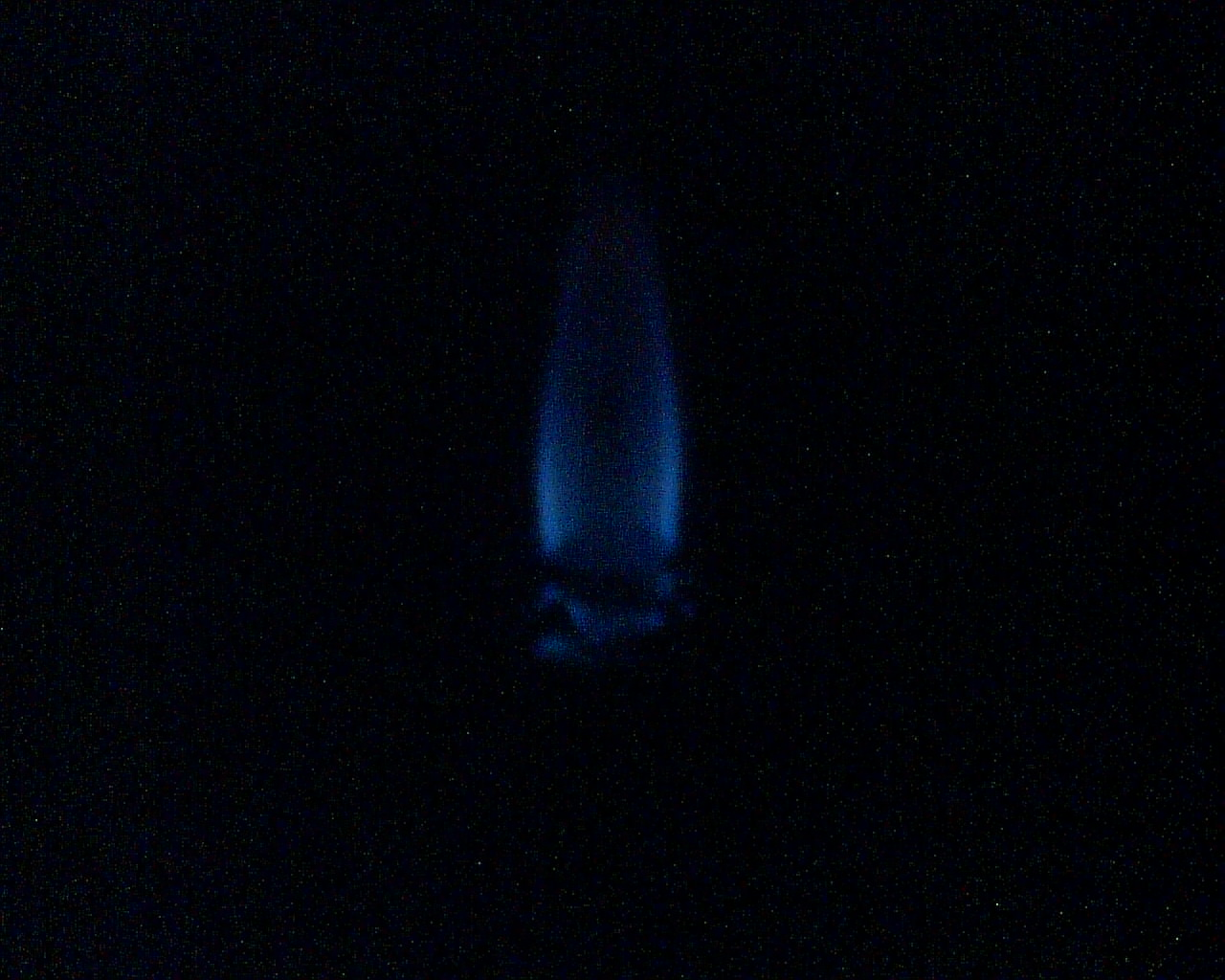 Private photo released to the public domain. cool pic